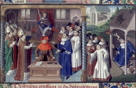 The Council of Nicaea and the death of Arius, in Vincent de Beauvais, Speculum historiale , National Library of France, ms. Français 51, folio 130